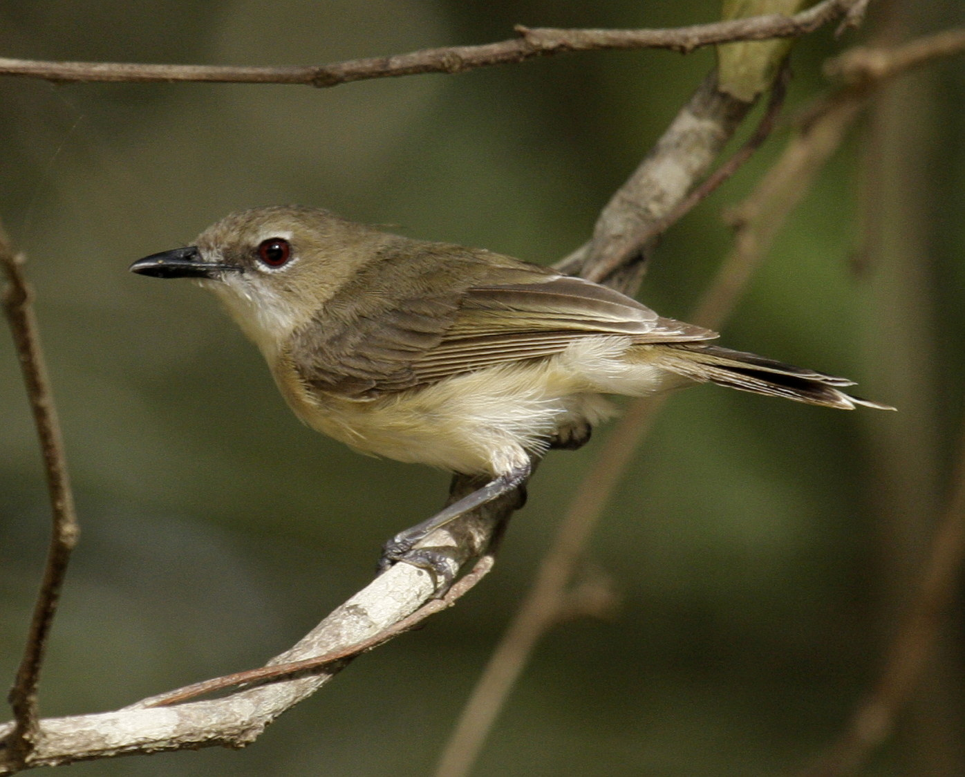 Large-billed Gerygone (Gerygone magnirostris) Portland Roads, Cape York, North Queensland, Australia